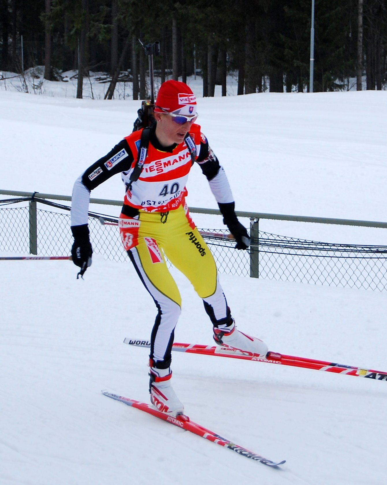 Slovakian biathlete Martina Halinarova during the World Championships in Östersund 2008.